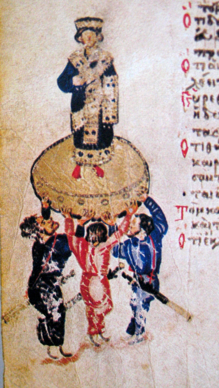 Roman custom of proclamation of emperor on the shield. King Hezekiah. From Chludov Psalter